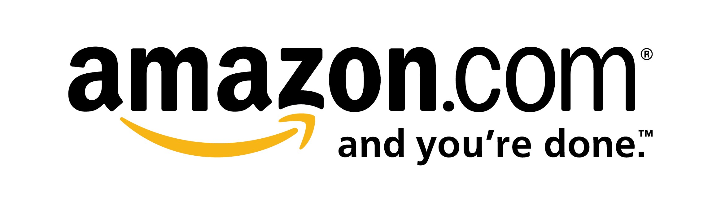 This is the Amazon Logo